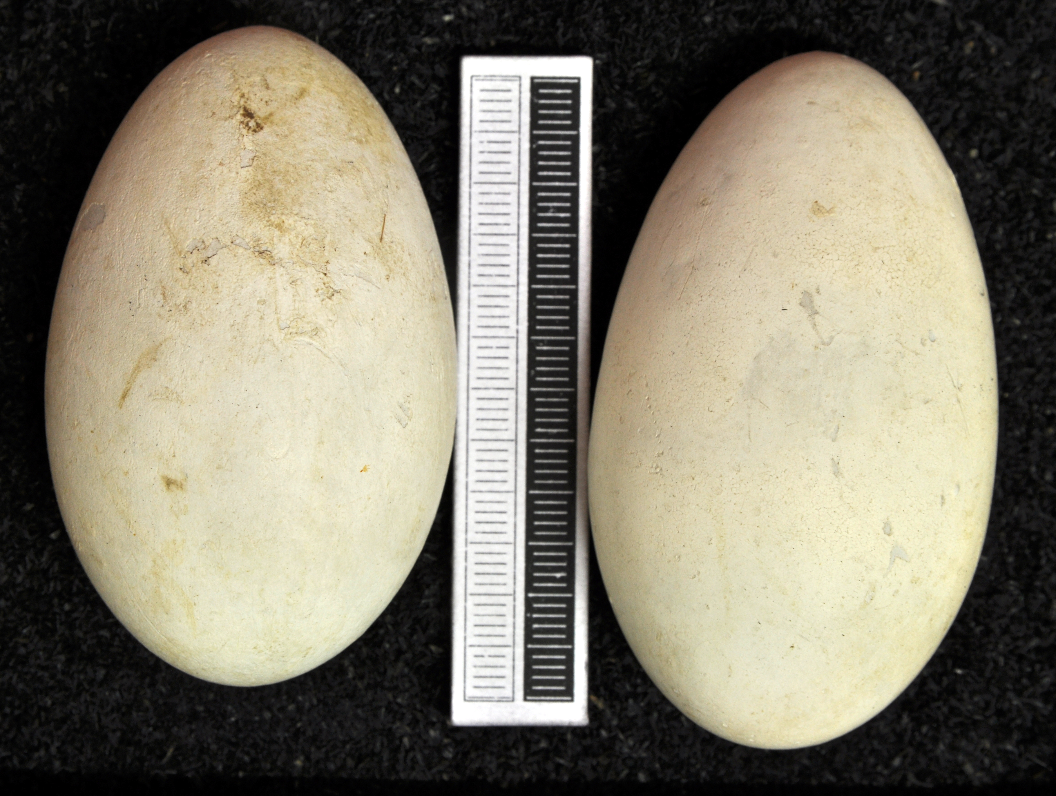 Japanese cormorant Phalacrocorax capillatus , egg, Coll. Museum Wiesbaden